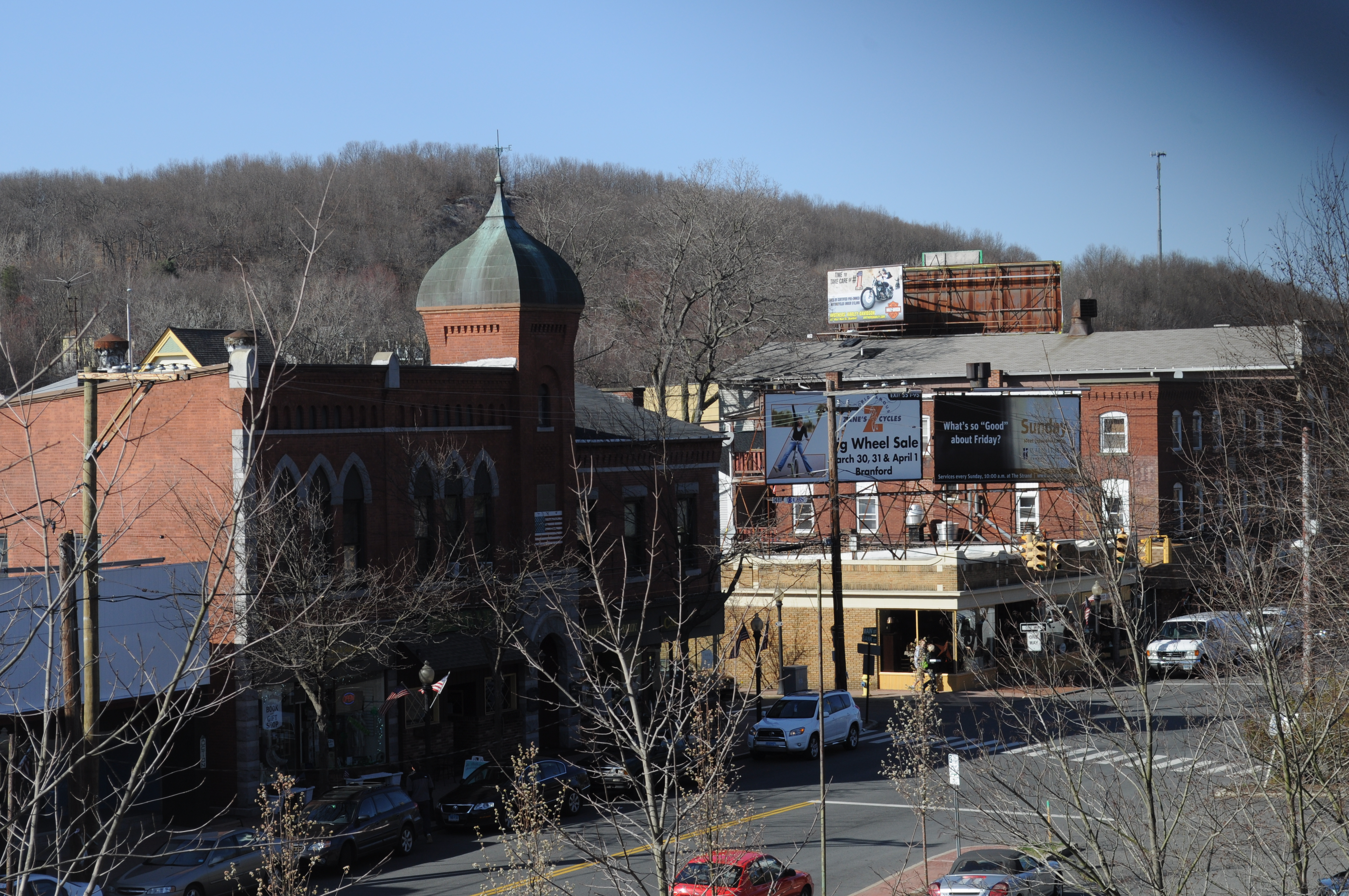 135 Main Street, Seymour, Connecticut seen from Kisson's Crossing (a footbridge across the railroad tracks). Part of the Downtown Seymour Historic District, which is listed on the National Register of Historic Places.